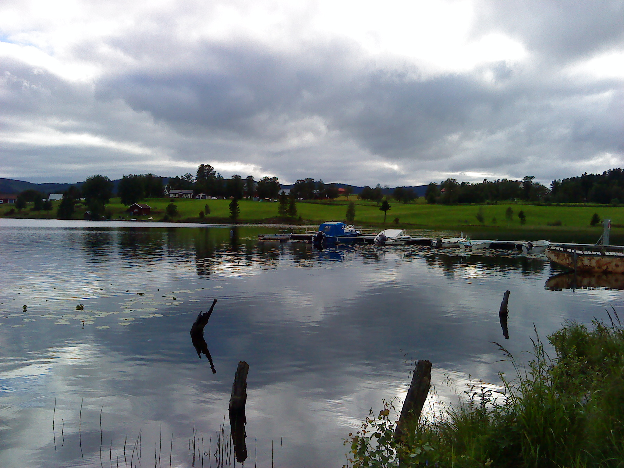 Änge, Offerdal, Krokoms kommun, Jämtland, Sweden.